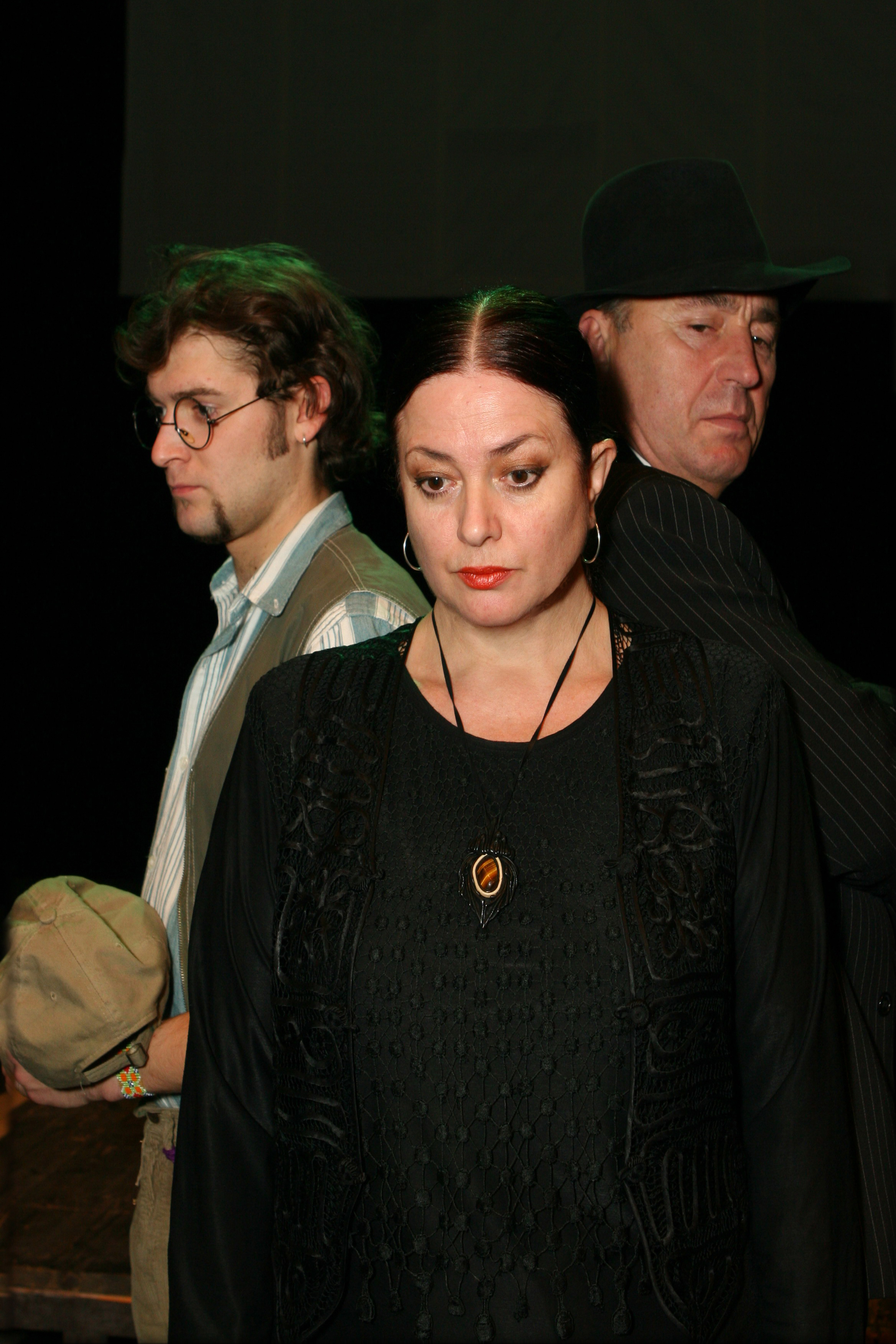 Vitaliy Zubchenko, Yaroslava Mosiychuk and Viacheslav Khimiak